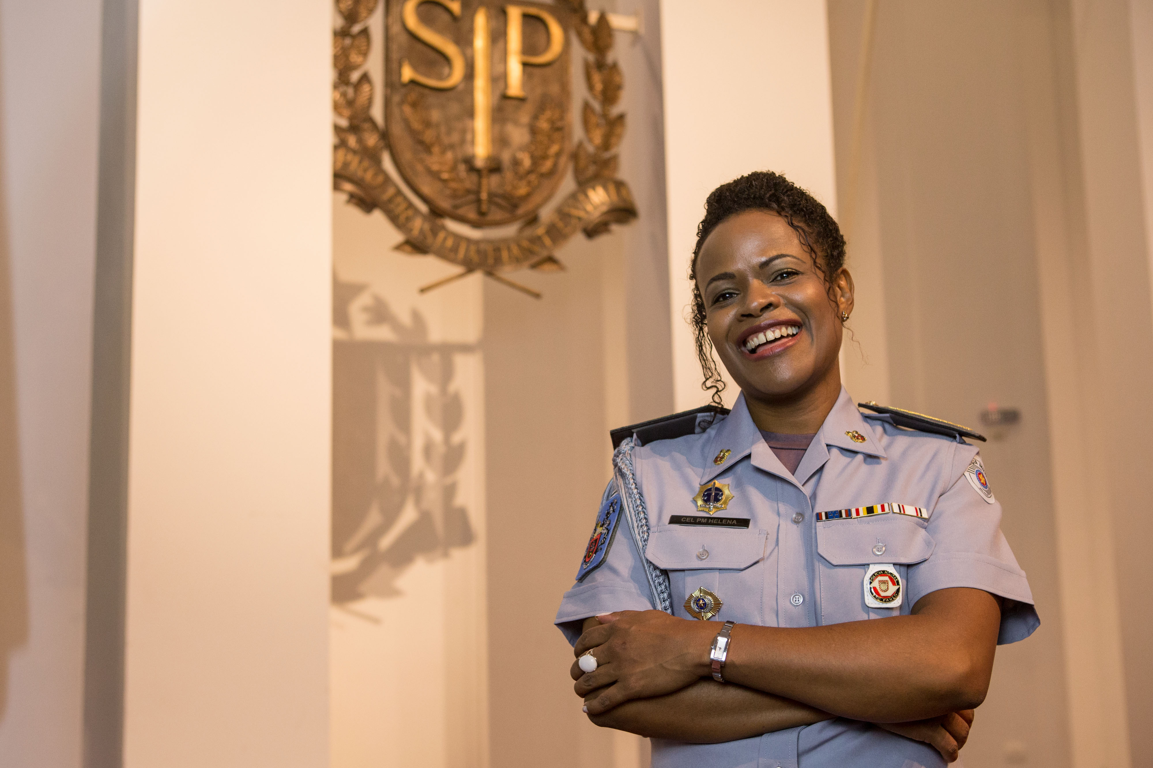 Helena Reis, secretária chefe da Casa Militar.